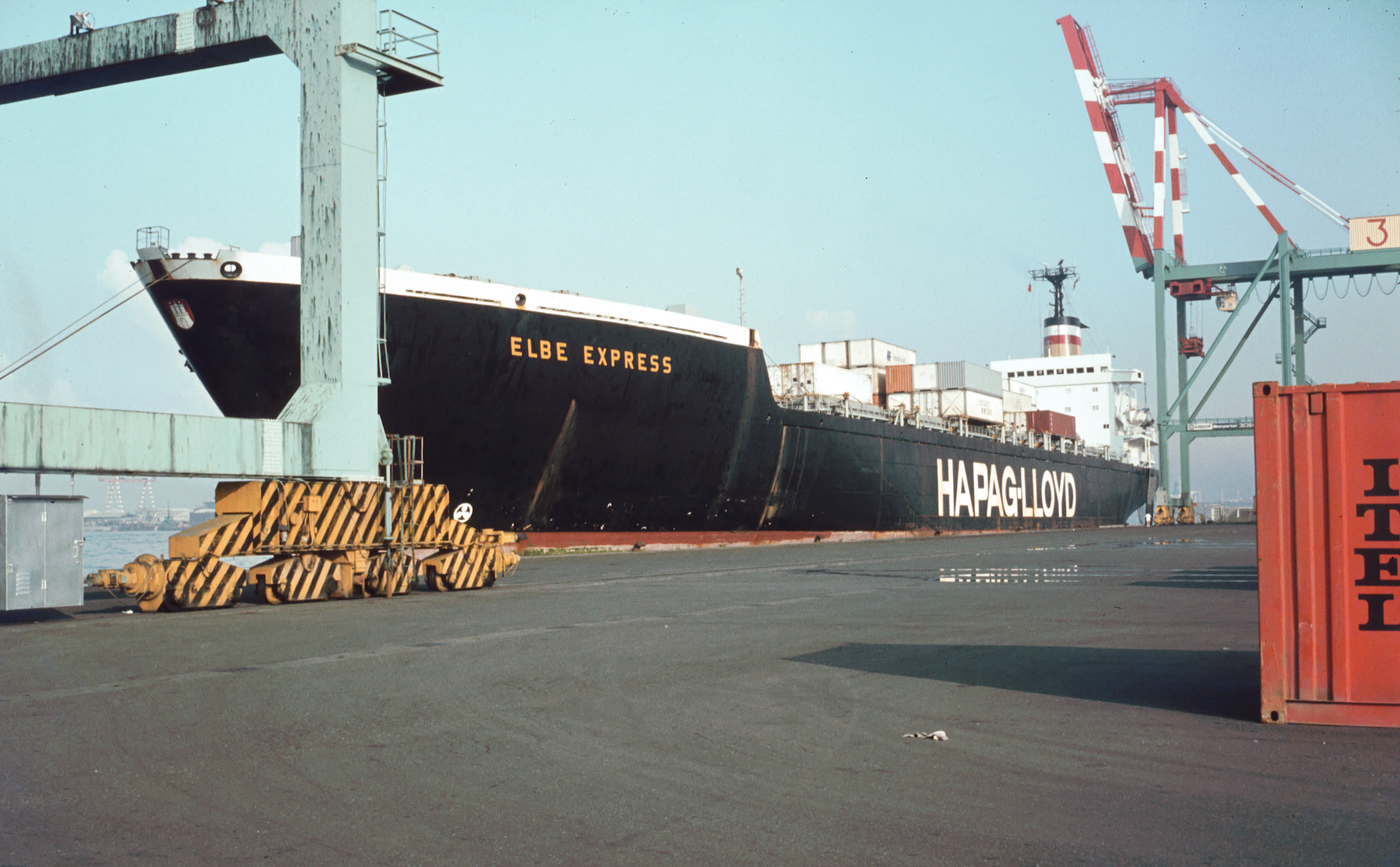 Hapag-Lloyd MS Elbe Express at the Container Terminal - 1982